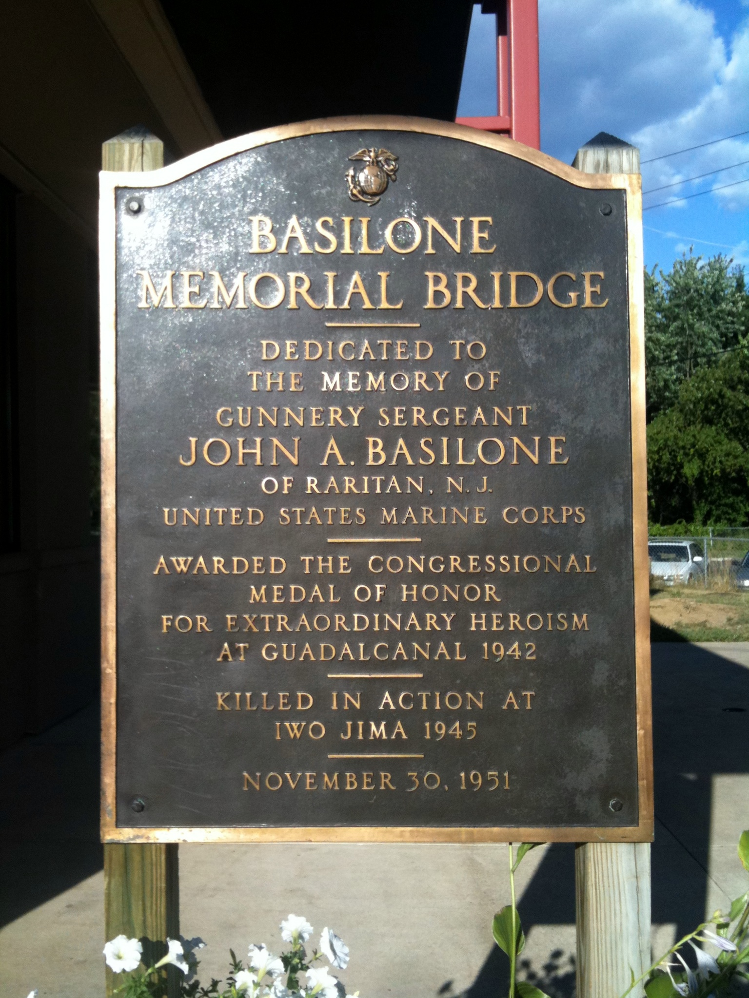 Dedication sign for the Basilone Memorial Bridge. The bridge, which opened along with the New Jersey Turnpike in 1951 is named for John Basilone, a World War II recipient of the Medal of Honor who grew up in nearby Raritan.